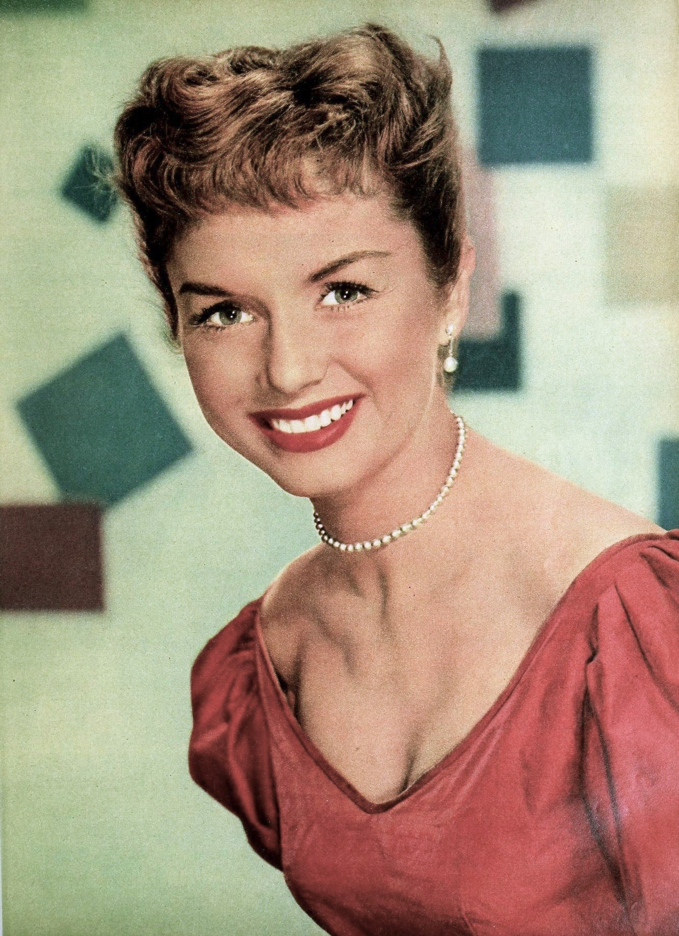 Debbie Reynolds, August 1954